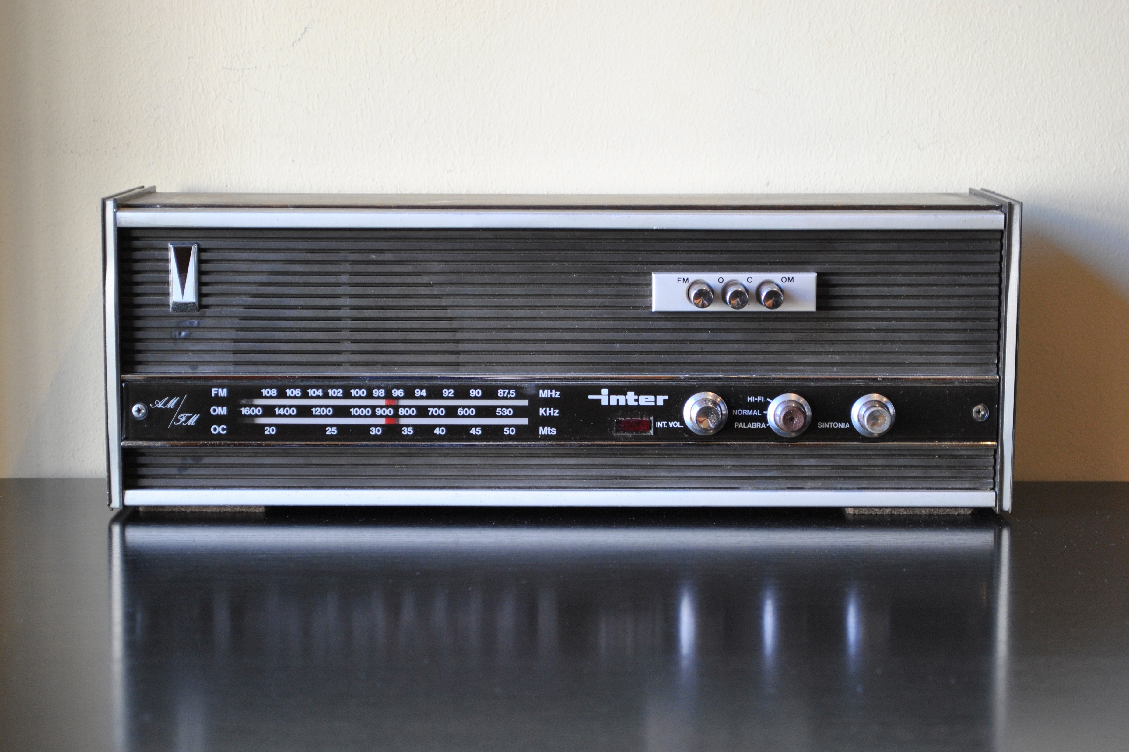 The Spanish Euromodul 70 radio by Inter Electronica S.A. of Barcelona, ca. 1967 [1]. 70 was an arbitrary model number, not year.